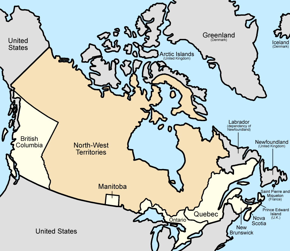 Canada provinces 1871-1873 simplified